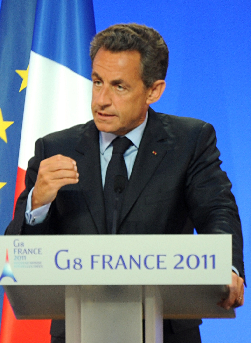 Nicolas Sarkozy, President of the French Republic, at his press conference on the first day of the 37th G8 summit in Deauville, France. Cropped version.